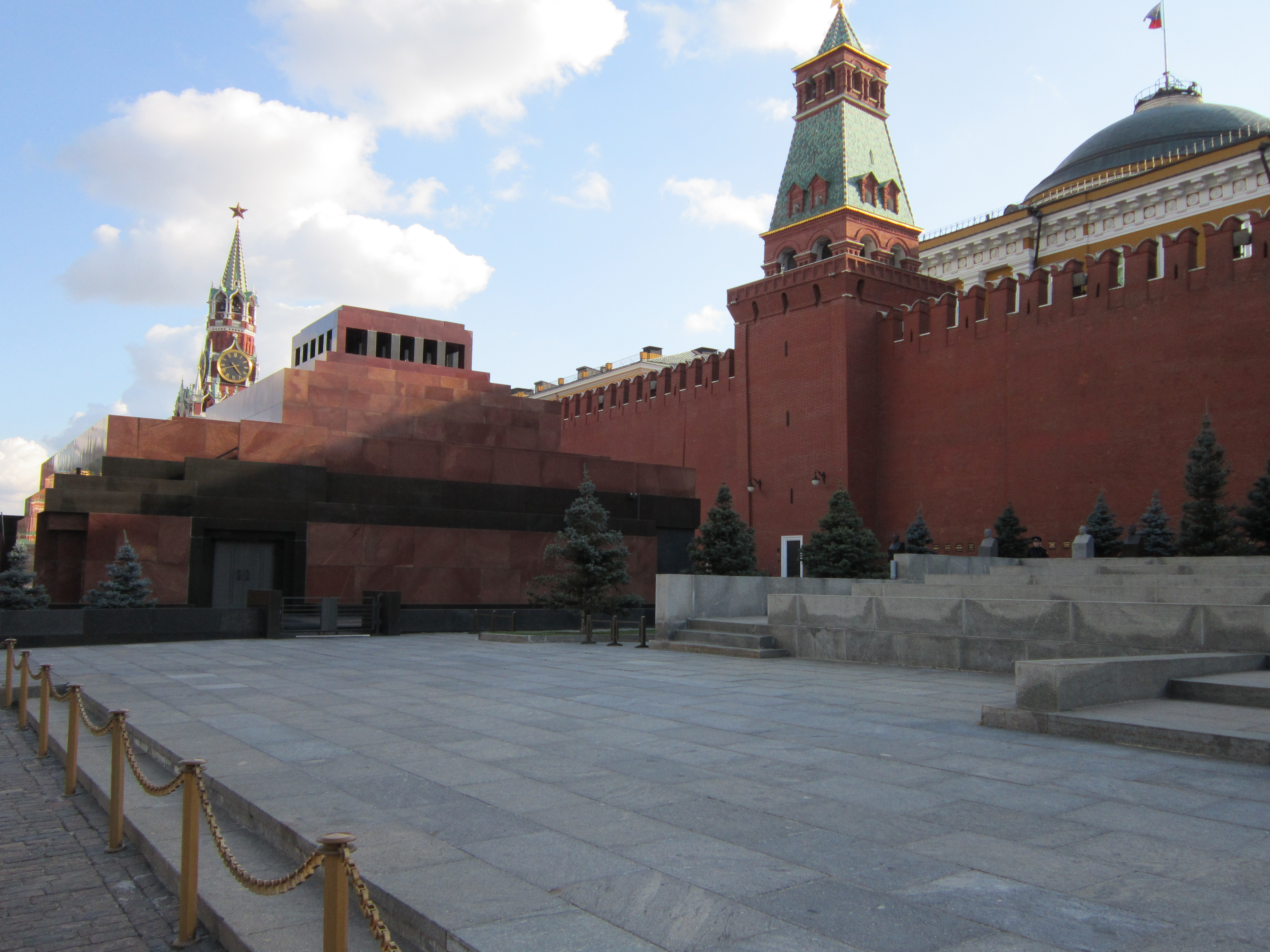 Der Moskauer Kreml